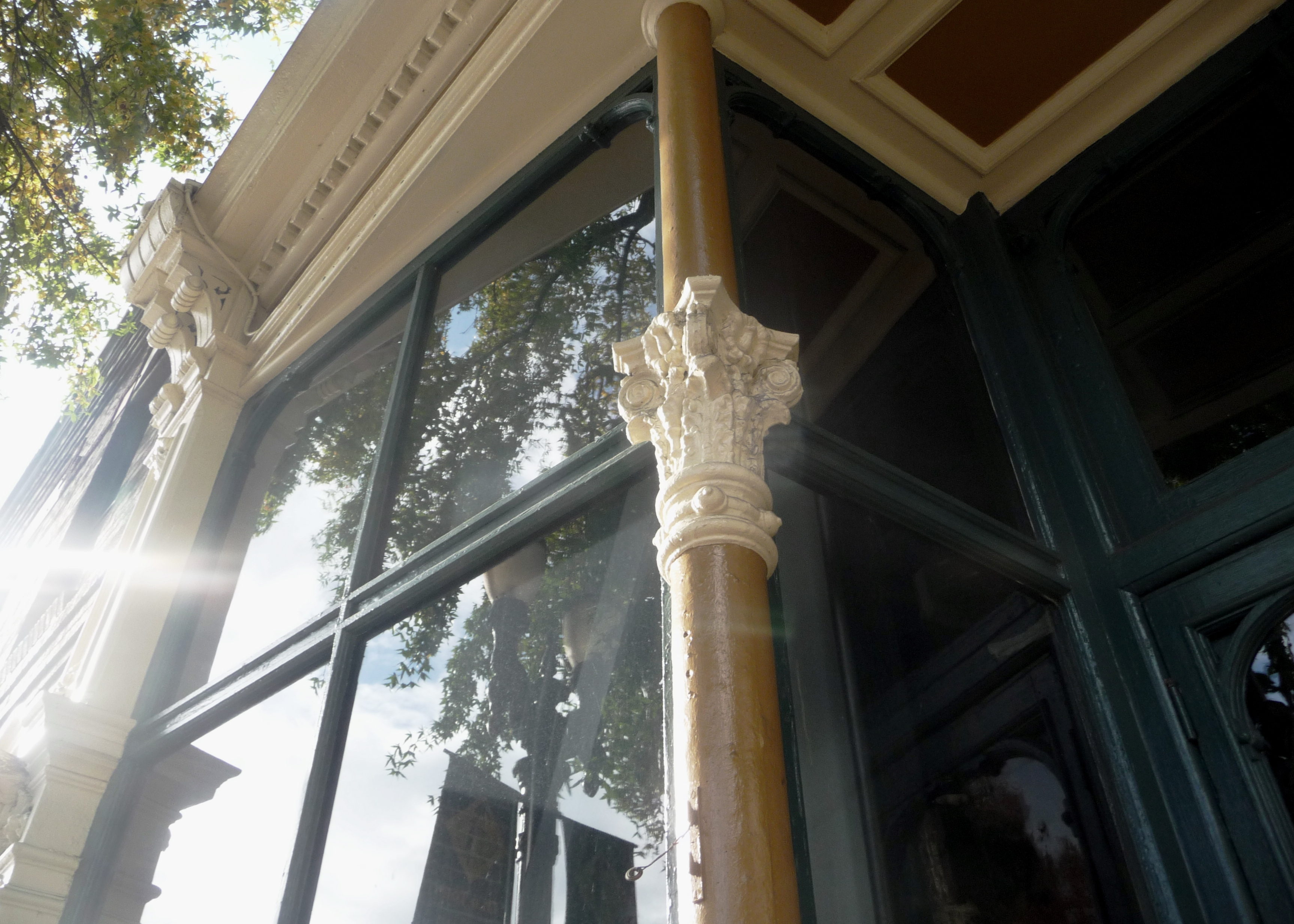 Oldtown - The Merchants Hotel (1880) (1884) is located at 123 NW Second Avenue. The property site address is 121 - 139 NW Second Avenue. The Merchants Hotel is my token Historic Landmark in the Portland Skidmore/Old Town Historic District (added 1975 - Multnomah County); Also known as Skidmore Fountain/Old Town Historic District roughly bounded by Harbor Drive, Everett, Third Avenue, and Oak Street, Portland (440 acres, 30 buildings, 1 object). In 1880, natives of Saxony, German brothers Louis, Adolph, and Theodore Nicolai began construction of the Merchants Hotel. This building took four years to build. Completed in 1885, the hotel provided first class accommodations for its guests. One of Portland's first hydraulic elevators attracted visitors, as did the ornate lobby and a dancing and assembly room, reported to be the most popular in the city. The hotel grew to encompass the entire north one-half of the block by 1889. The hotel was equipped with hydraulic Passenger and Baggage Elevators, Electric Call Bells, and every appliance for the comfort and convenience of guests. The large hotel was only a few (three) blocks from the railroad depot and steamer landings. Except for the removal of the sheet-metal cornice, the building appears much as it did originally. The lower floor cast-iron columns, and doorway arches, show the Willamette Iron Works mark. This pattern was used considerably by architect, Warren Williams, who was likely the building architect. With the wide glass areas afforded by the iron columns, this building was typical of many in this part of the city before the turn of the century. Between the two World Wars, the Merchants evolved into a center for Japanese-American community life. It provided office space for prominent doctors and dentists and for the Japanese-Oregon daily newspaper. The owners renamed the hotel "Imperial Hotel" during this era.